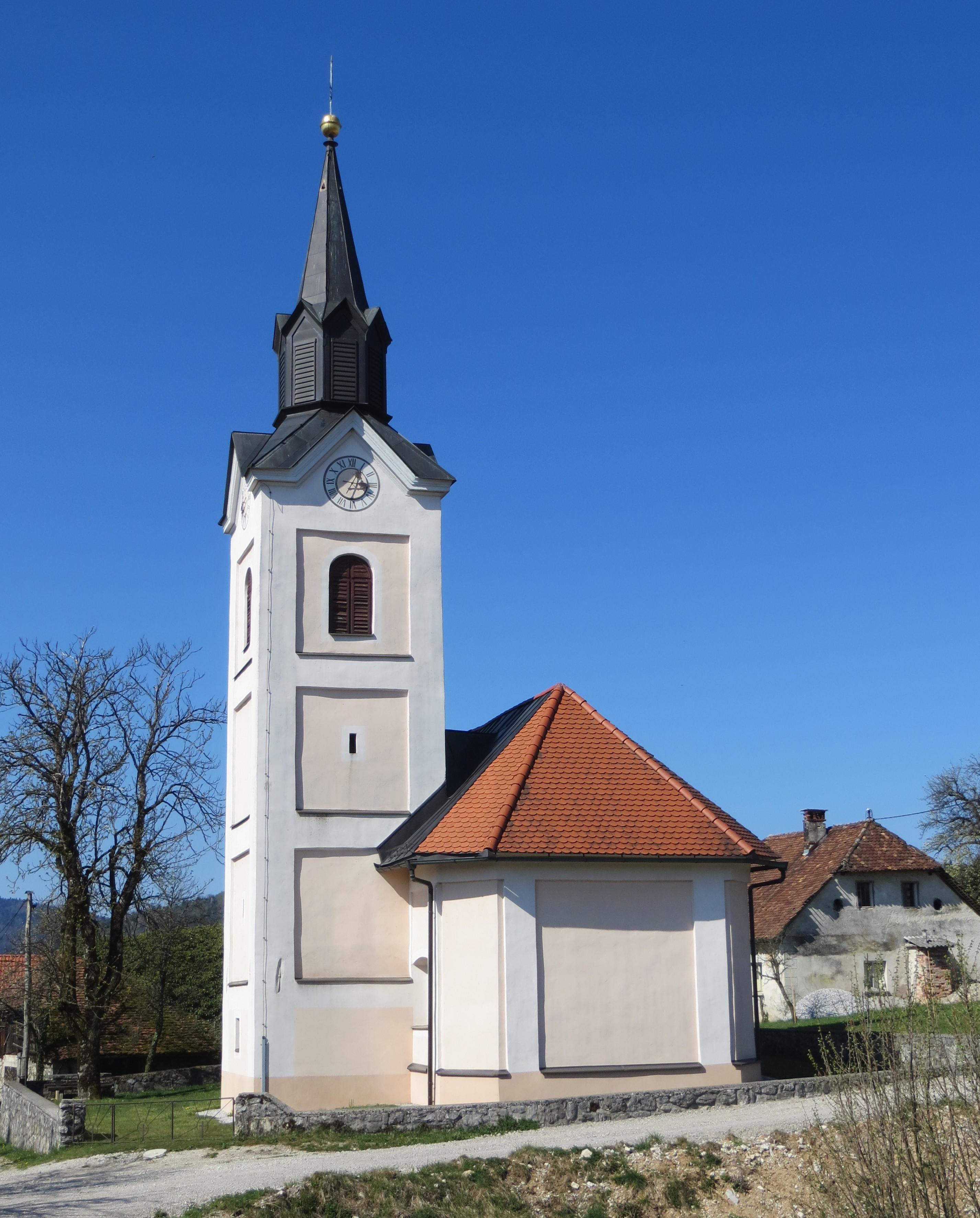 Saint Bartholomew's Church in Rašica, Municipality of Velike Lašče, Slovenia